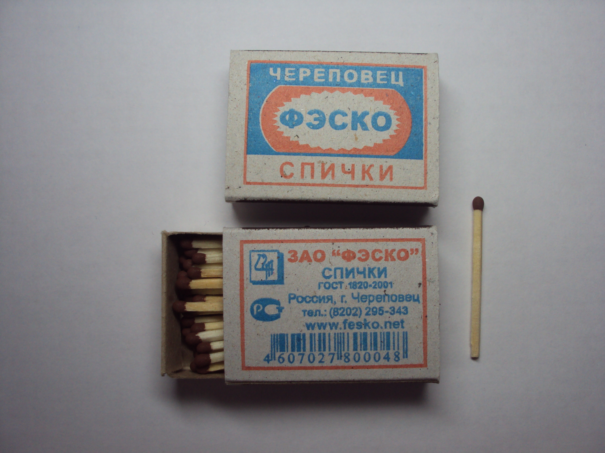 Modern-time matchsticks, made in Russia.